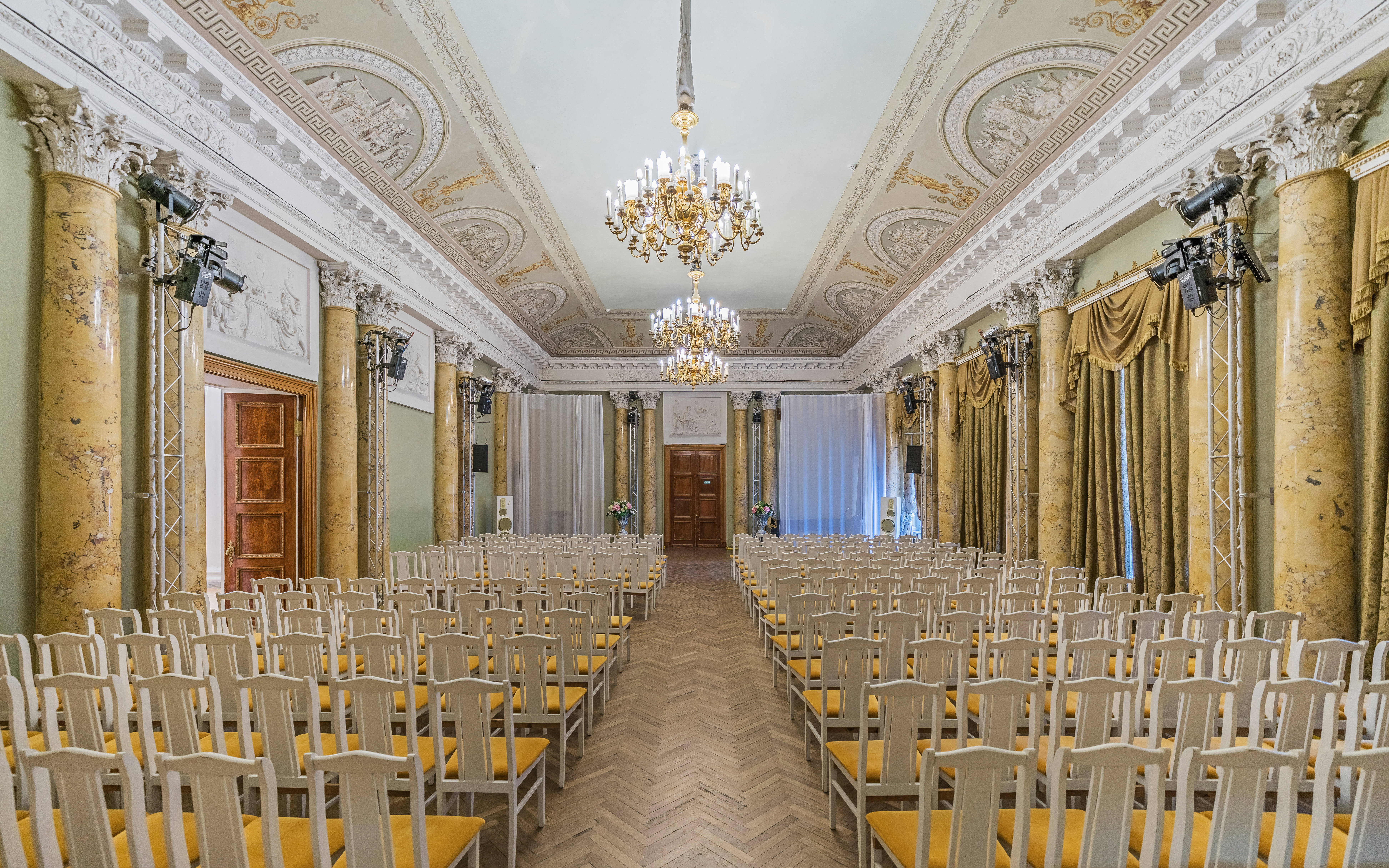 Interior of the Anichkov Palace in Saint Petersburg, Russia